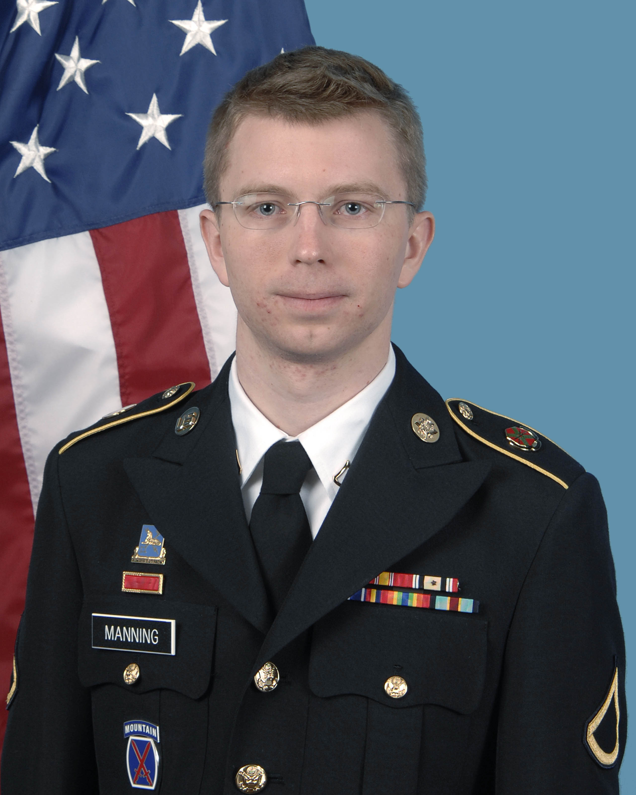 United States Army photograph of Bradley Manning, who is now named Chelsea Manning